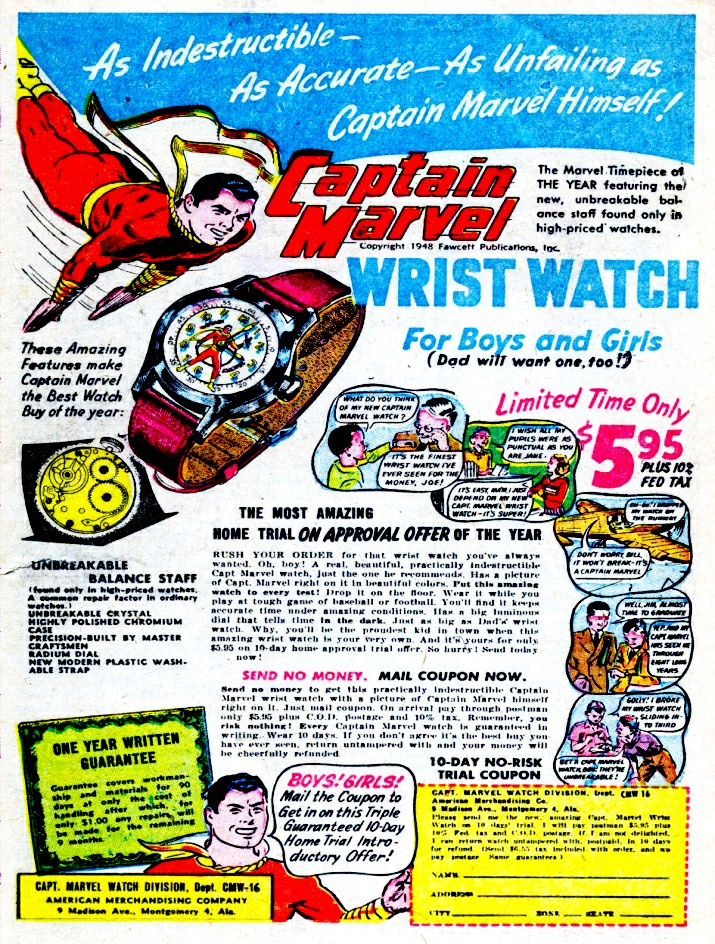 The Black Terror #25, Page 34